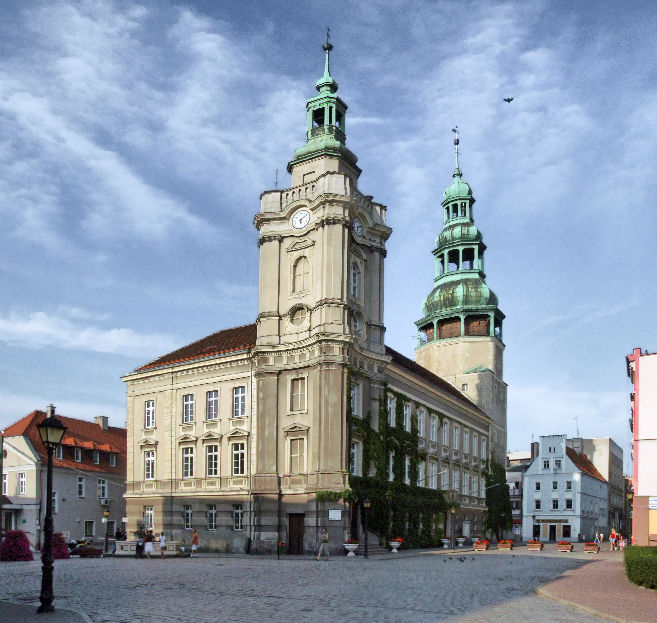 The Market Square in Szprotawa.